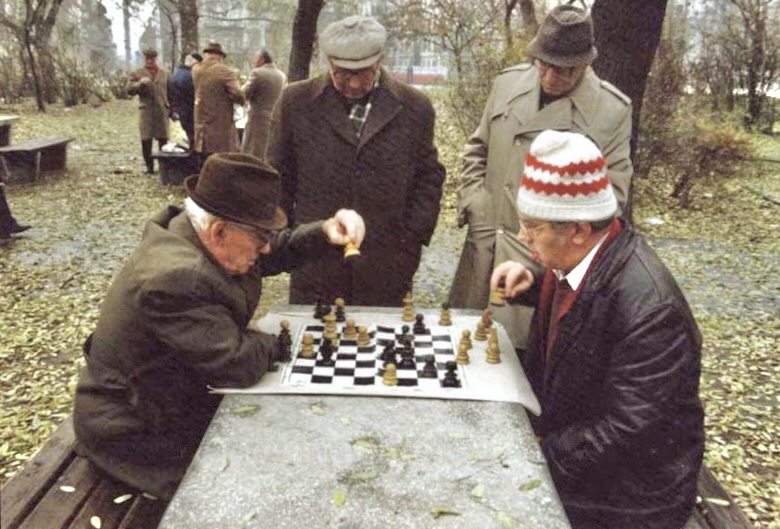 "Outdoor chess in Budapest, 1990"